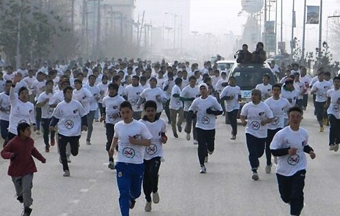 Afghan Anti-Corruption Network 5 Km Race Against Corruption In Bamyan City of Afghanistan